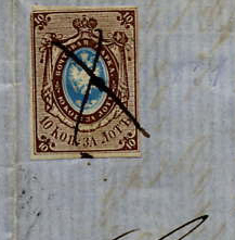 Fragment of an envelope with the first stamp of Russian empire, 1857, 10 kop., pen-cancelled